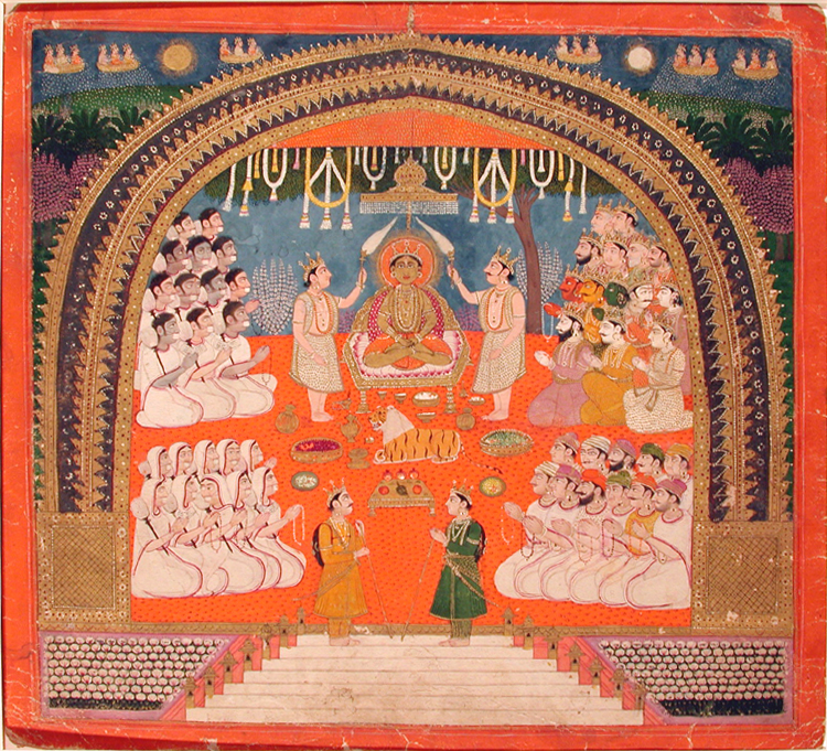 Creation Date: ca. 1825 Display Dimensions: 9 13/16 in. x 10 13/16 in. (24.92 cm x 27.46 cm) Credit Line: Edwin Binney 3rd Collection Accession Number: 1990.1331 Collection: The San Diego Museum of Art